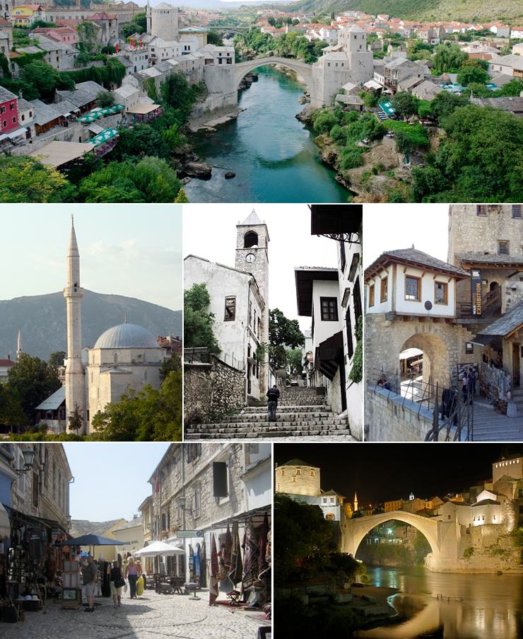 Mostar collage: Mostar panorama, Mostar Koski pašina mosque, Mostar Clock Tower, Mostar old bridge entrance, Mostar old town, Mostar Old Bridge